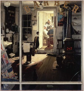 Cng Postover of Saturday Eveni